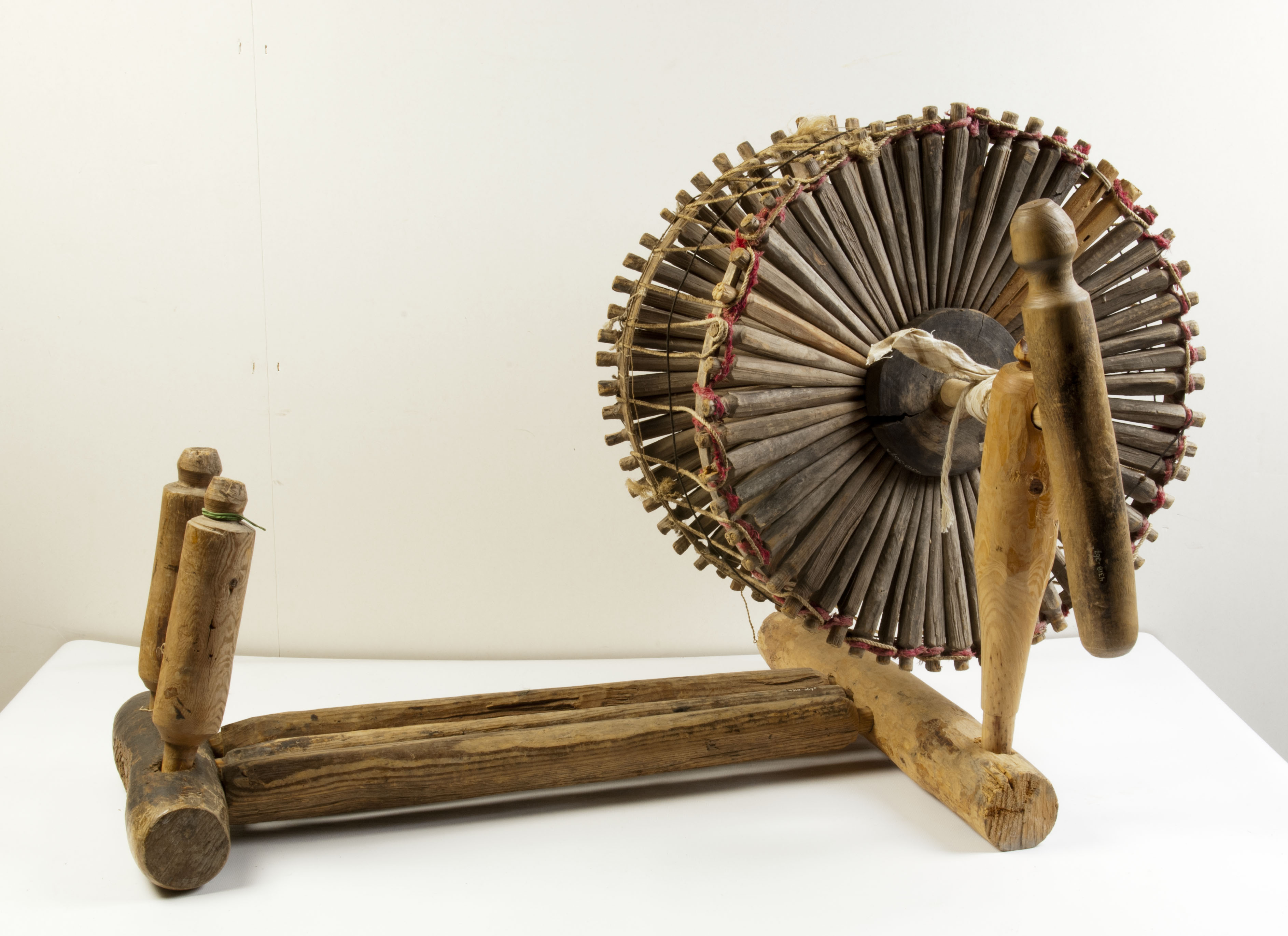 Collected by Josephine Powell .